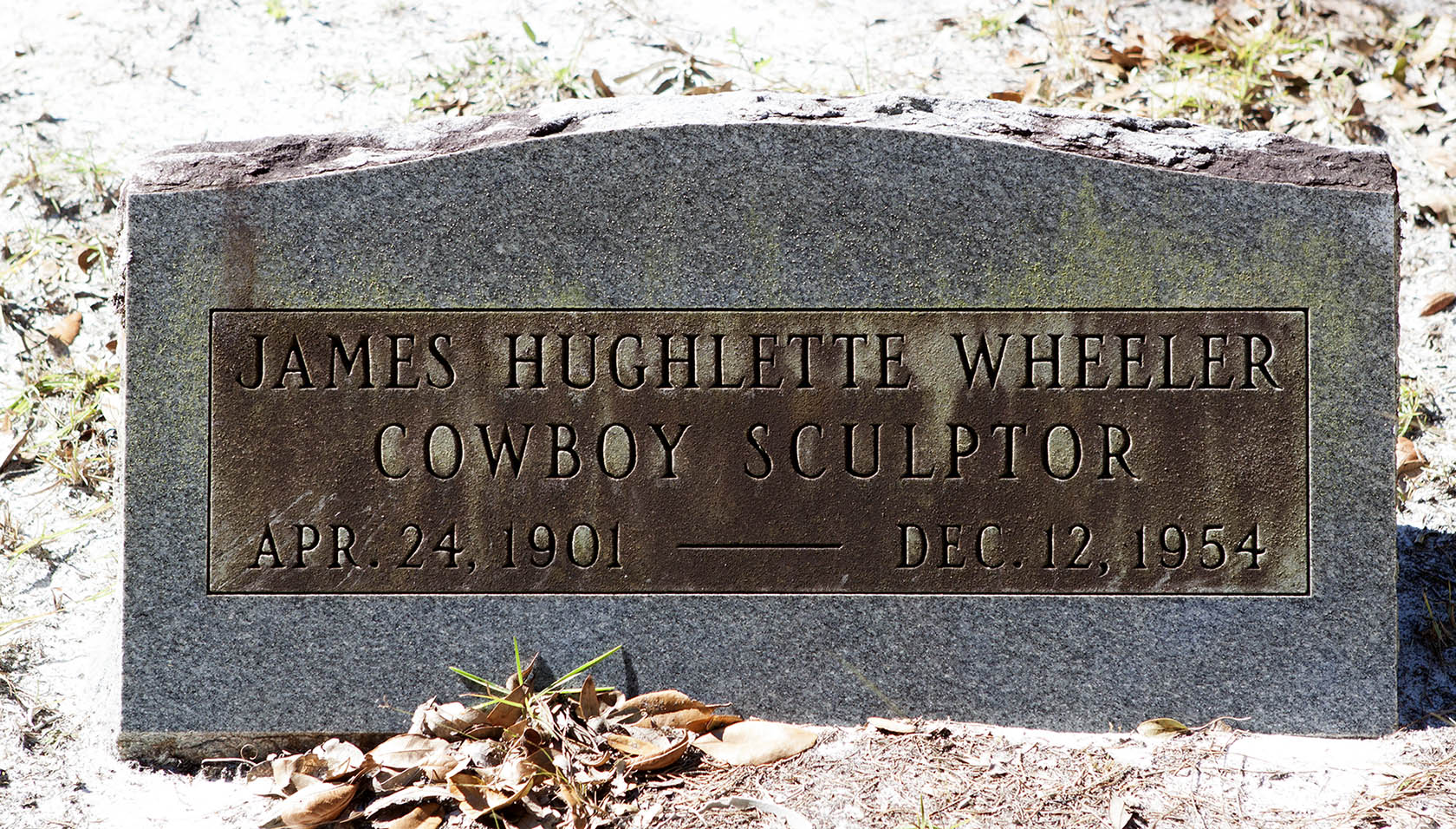 American Sculptor James Hughlette "Tex" Wheeler's Headstone, located in the Fort Christmas Cemetery in Christmas, Florida. Mr. Wheeler is best known for his sculptures of the famed racehorse Seabiscuit and the jockey who rode him to fame, George Woolf at Santa Anita Park in California as well as a statue of Will Rogers at the Will Rogers Memorial in Claremore, Oklahoma.